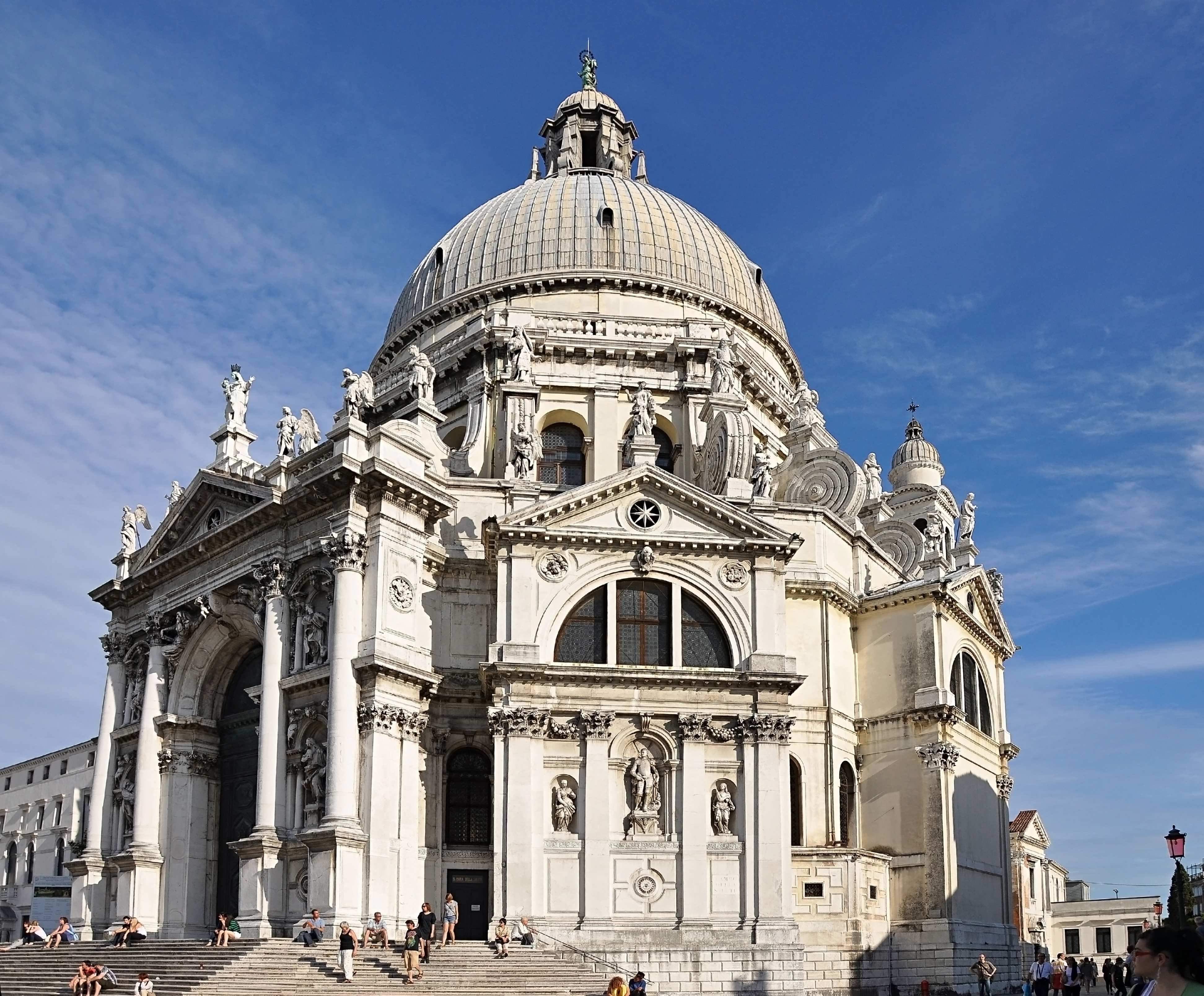 Exterior of the basilica Santa Maria della Salute in Venice, Italy.